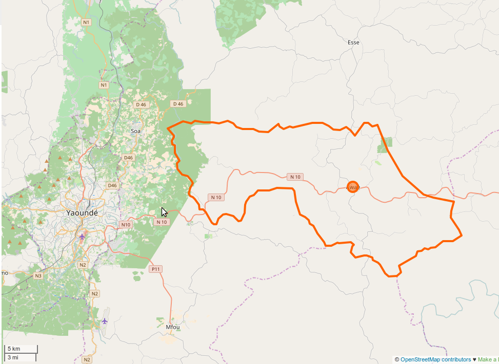 Awae in Cameroon, city boundaries with OSM. This map may be incomplete, and may contain errors. Don't rely solely on it for navigation.